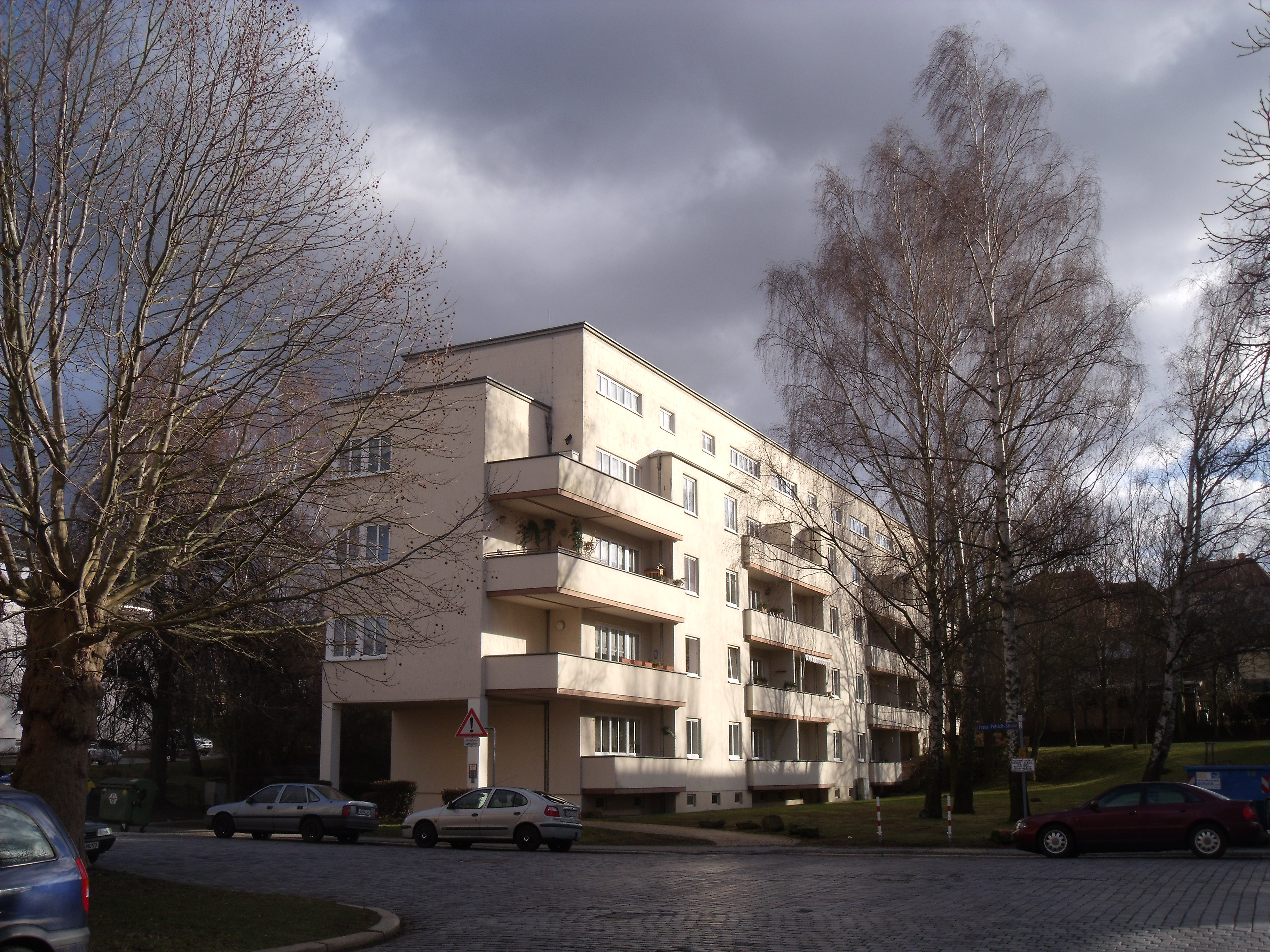 Apartment complex Ulmenhof in Gera, Germany; built in 1930/31 by architect Thilo Schoder